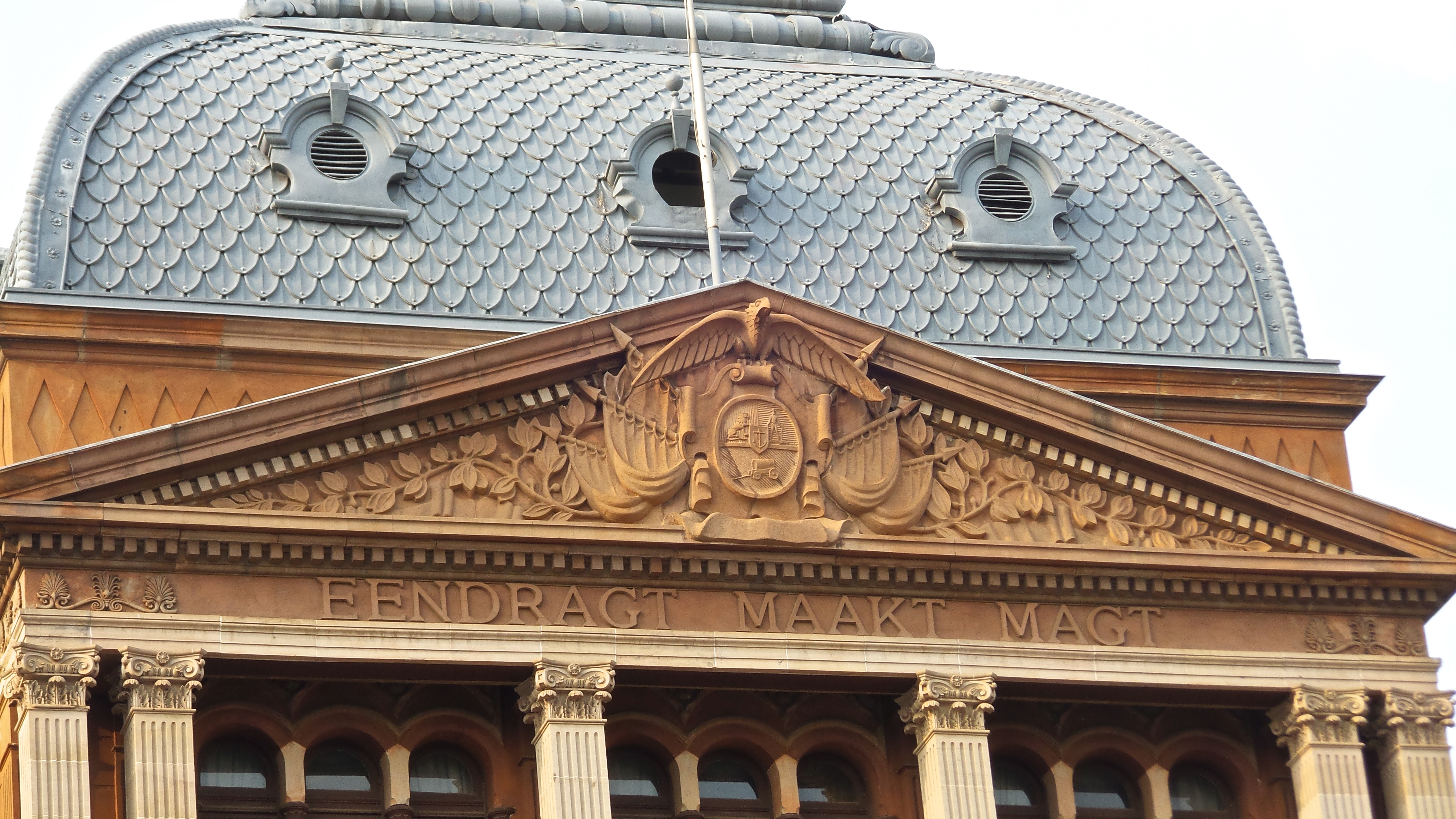 Old Raadsaal, Church Square, Pretoria This media shows a South African Protected Site with SAHRA file reference 9/2/258/0023.